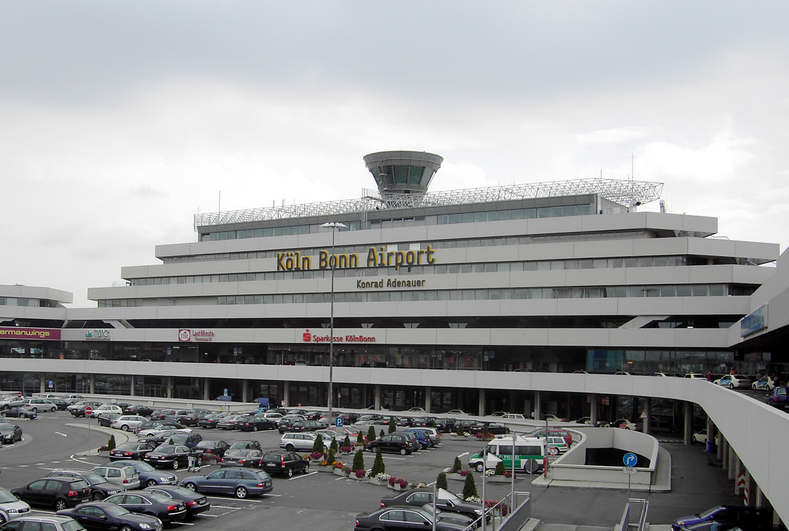 Terminal 1 of the Cologne/Bonn Airport (CGN)